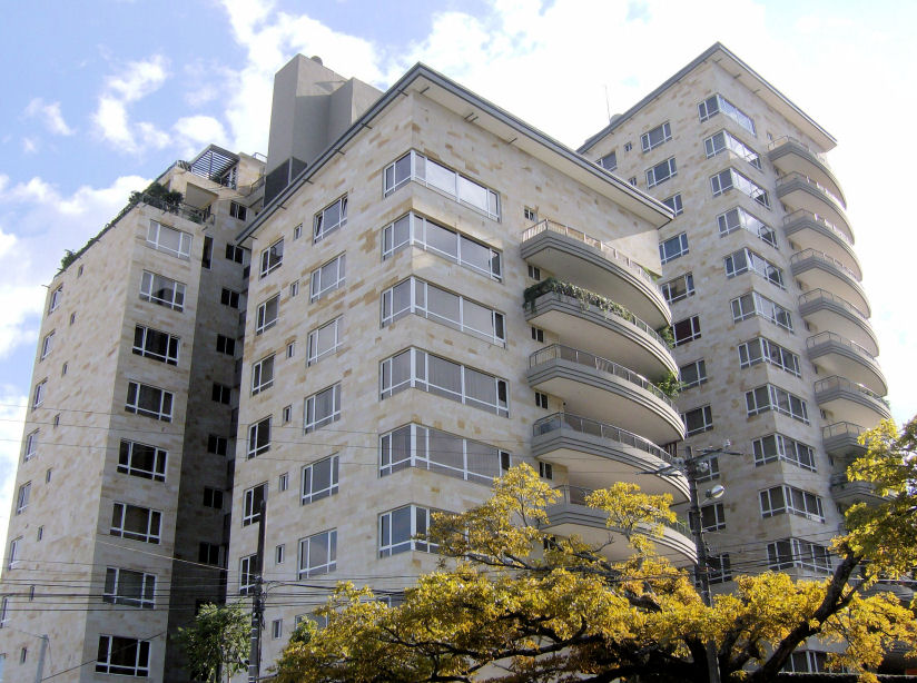 New Residential Buildings in San Salvador